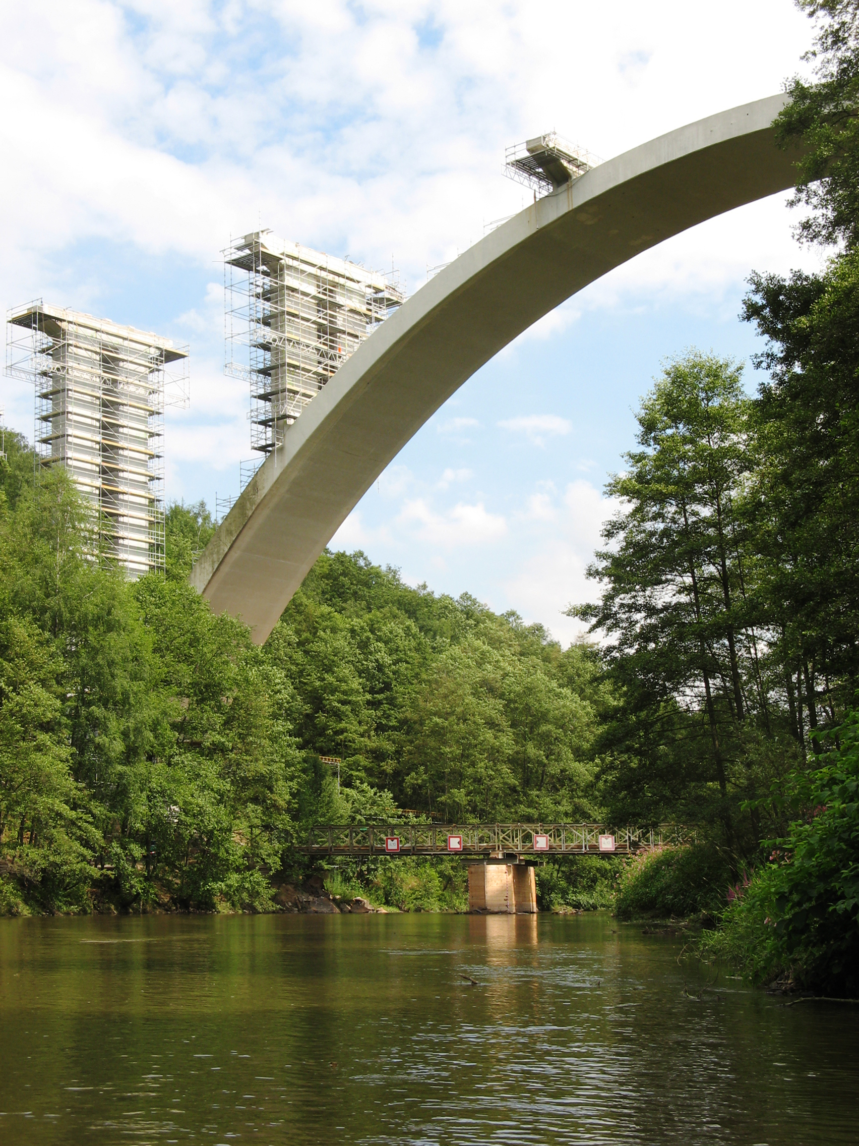 Bridge of the R6 road near the town of Sokolov, Sokolov District, Czech Republic under construction.